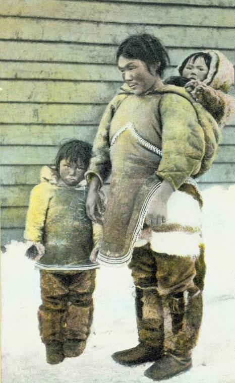 Print (photomechanical), Inuit woman and children, Great Whale River, QC, about 1900, A. A. Chesterfield, Coloured ink on paper mounted on card - Photolithography - 13.7 x 8.8 cm